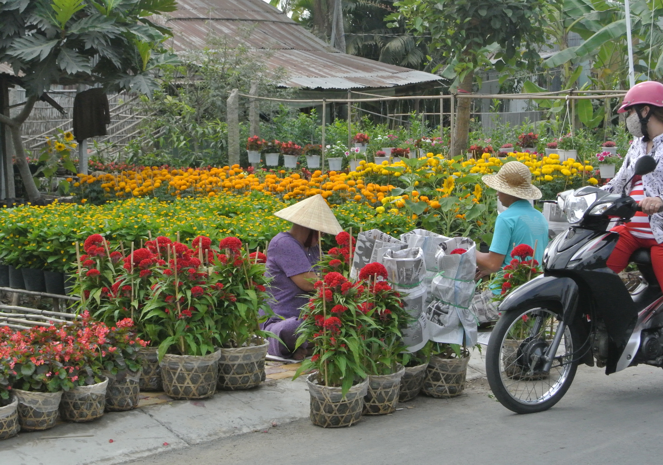 shipping flowers for Tet new year. Sa Dec city, DongThap province, Vietnam. 2015/Feb/14(before 5days for new year).